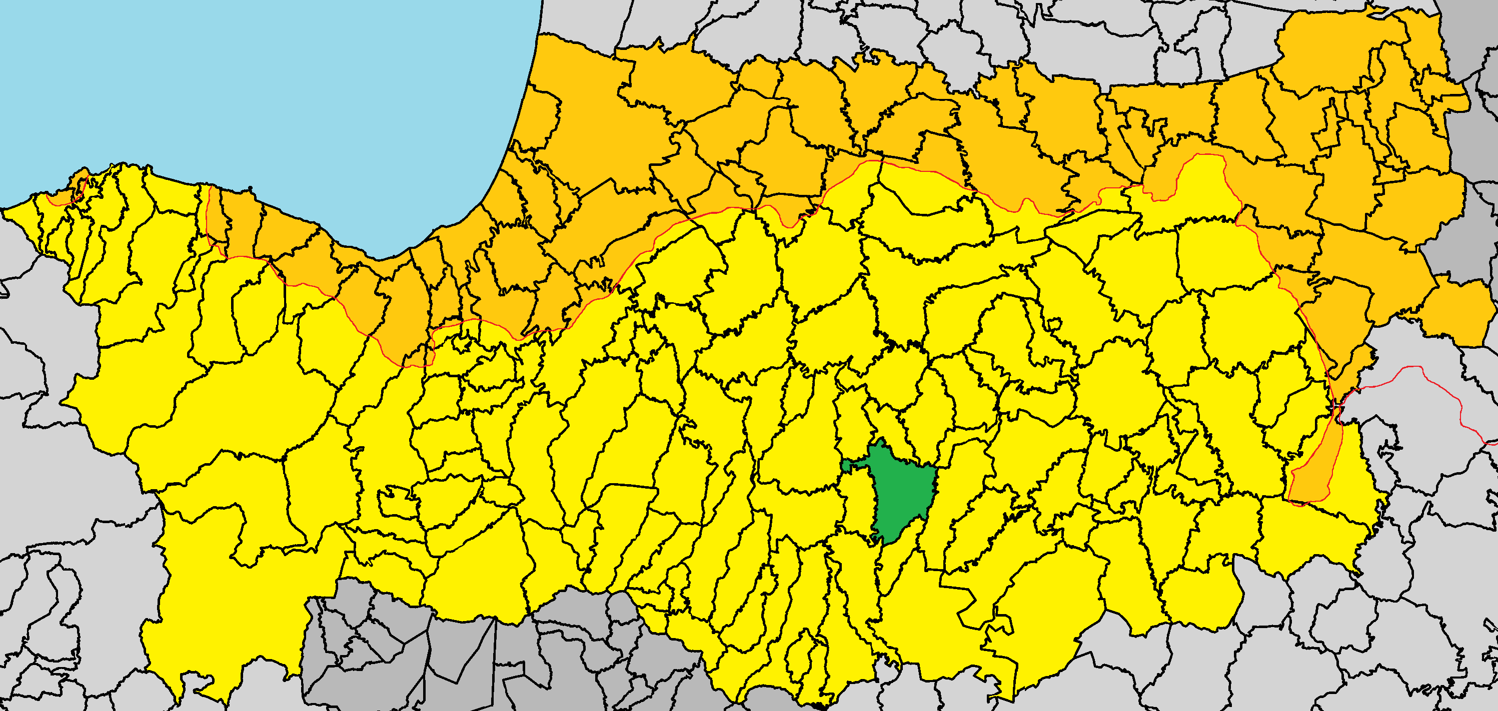 Klirou in Nicosia District.